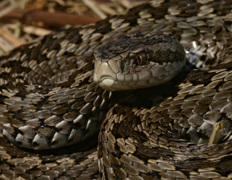 Vipera ursinii rakosiensis, Hanság, Hungary